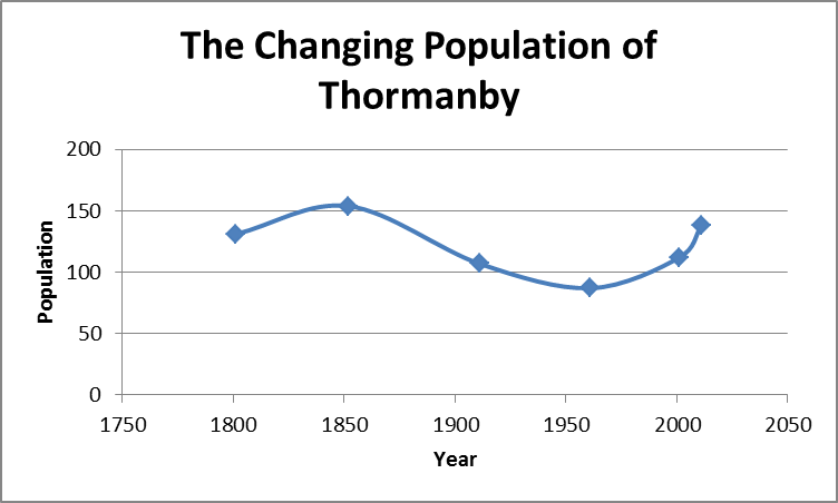 Thormanby's population since 1800.